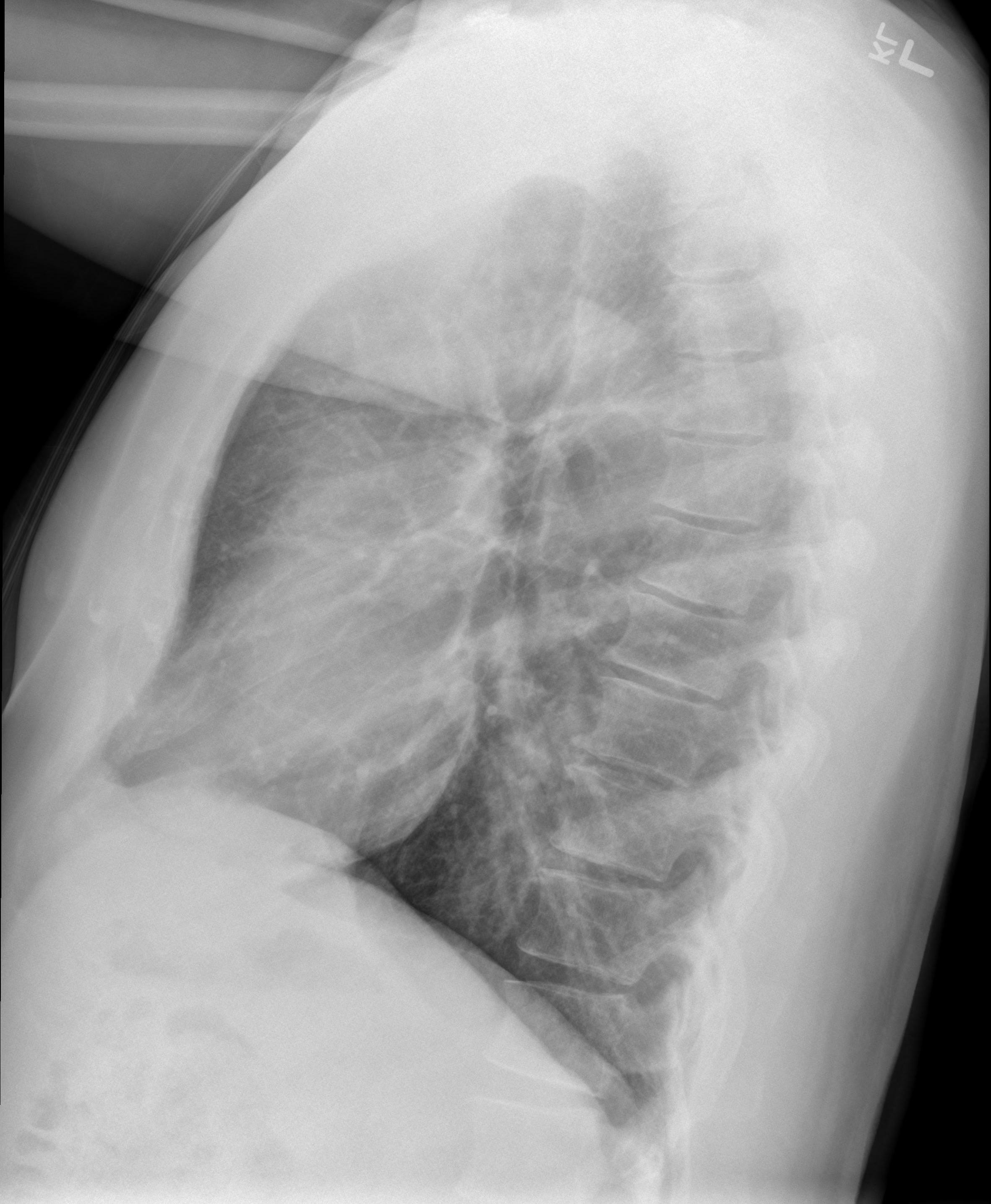 Chest x-ray – lateral view. Mild diaphragmatic flattening may be indicative of chronic obstructive pulmonary disease. Lungs clear. No pneumothorax or effusion. Heart and pulmonary vasculature unremarkable. No acute disease.